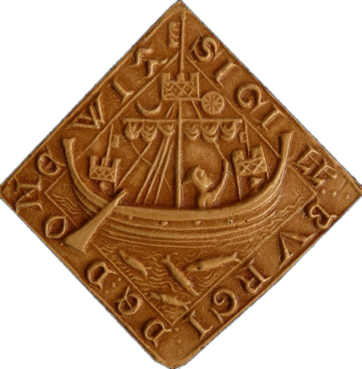 Seal of Dunwich, cast (French National Archives, Paris)